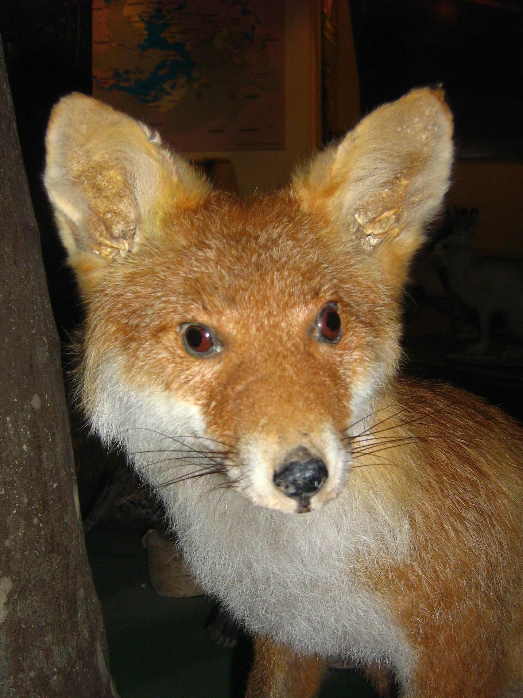 Fox